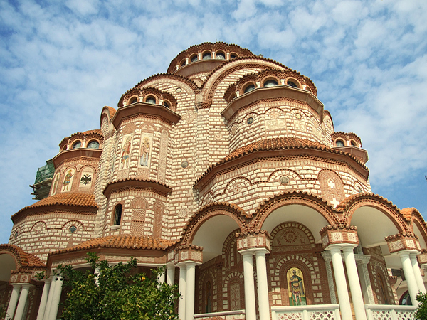 The Church in Nea Moudania, Chalkidiki